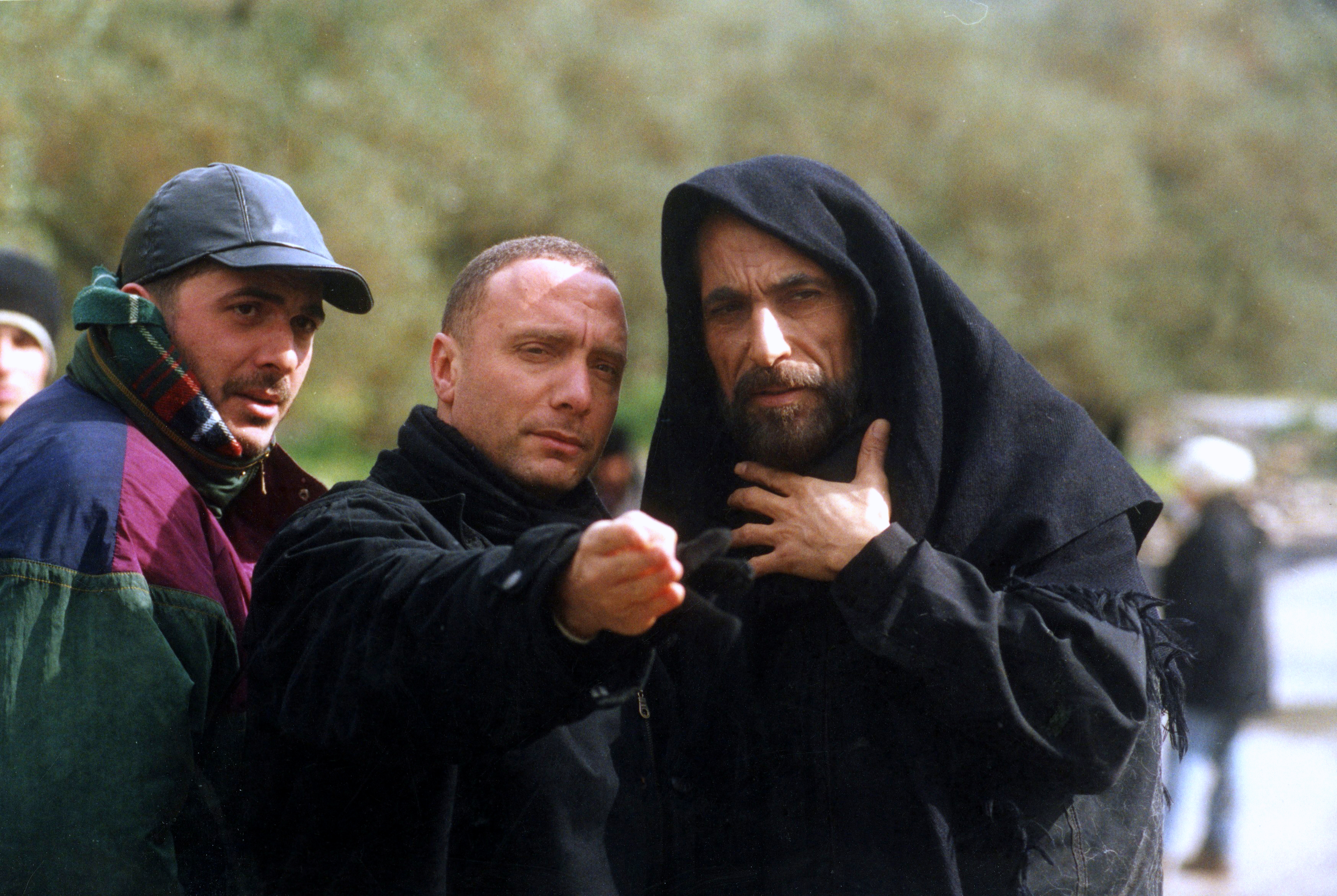 Film Set - Unshoodat Al Matar with Basel Al Khatib Directing Ghassan Massoud